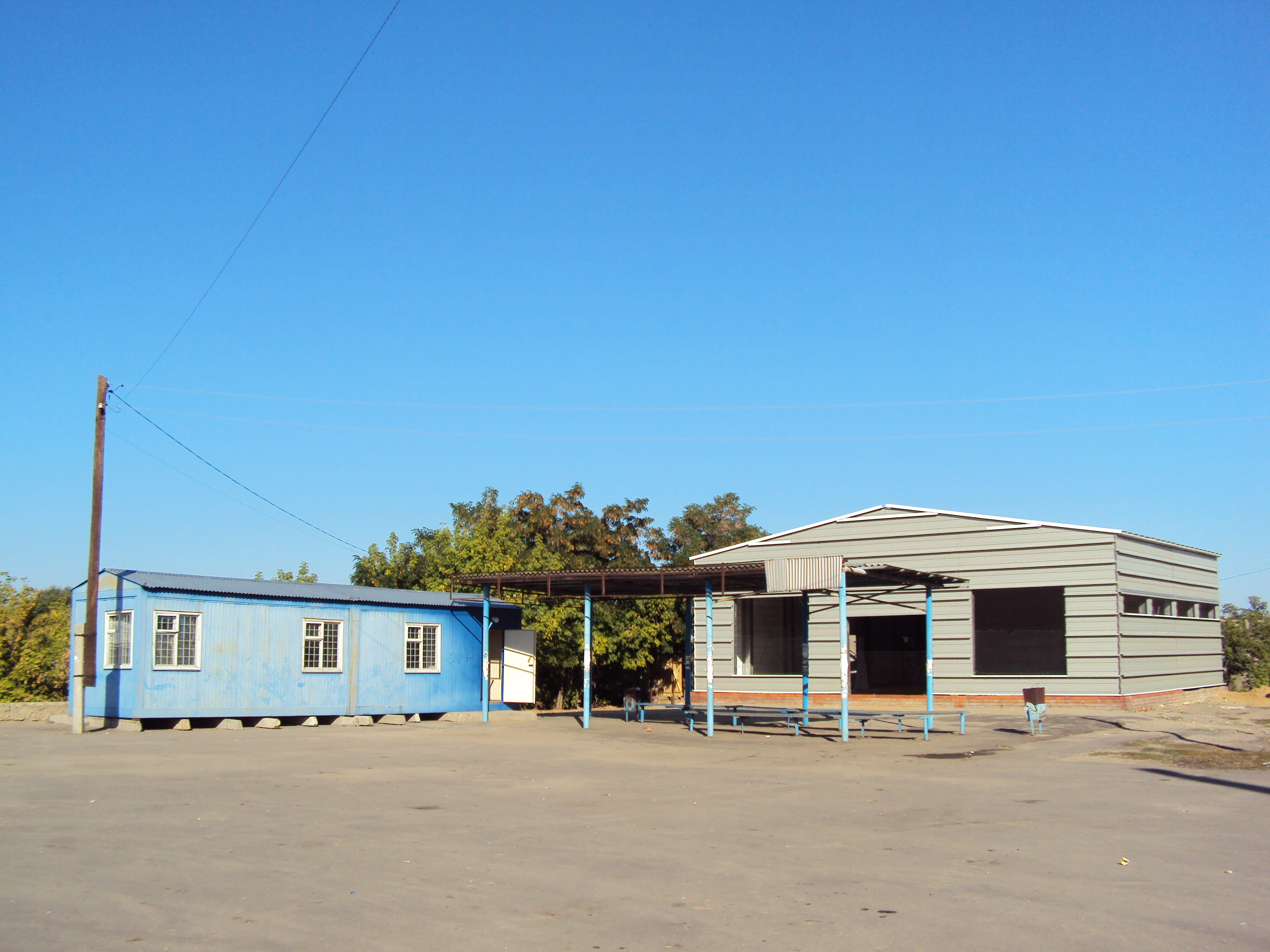 Restructuring Serafimovichsky bus station.